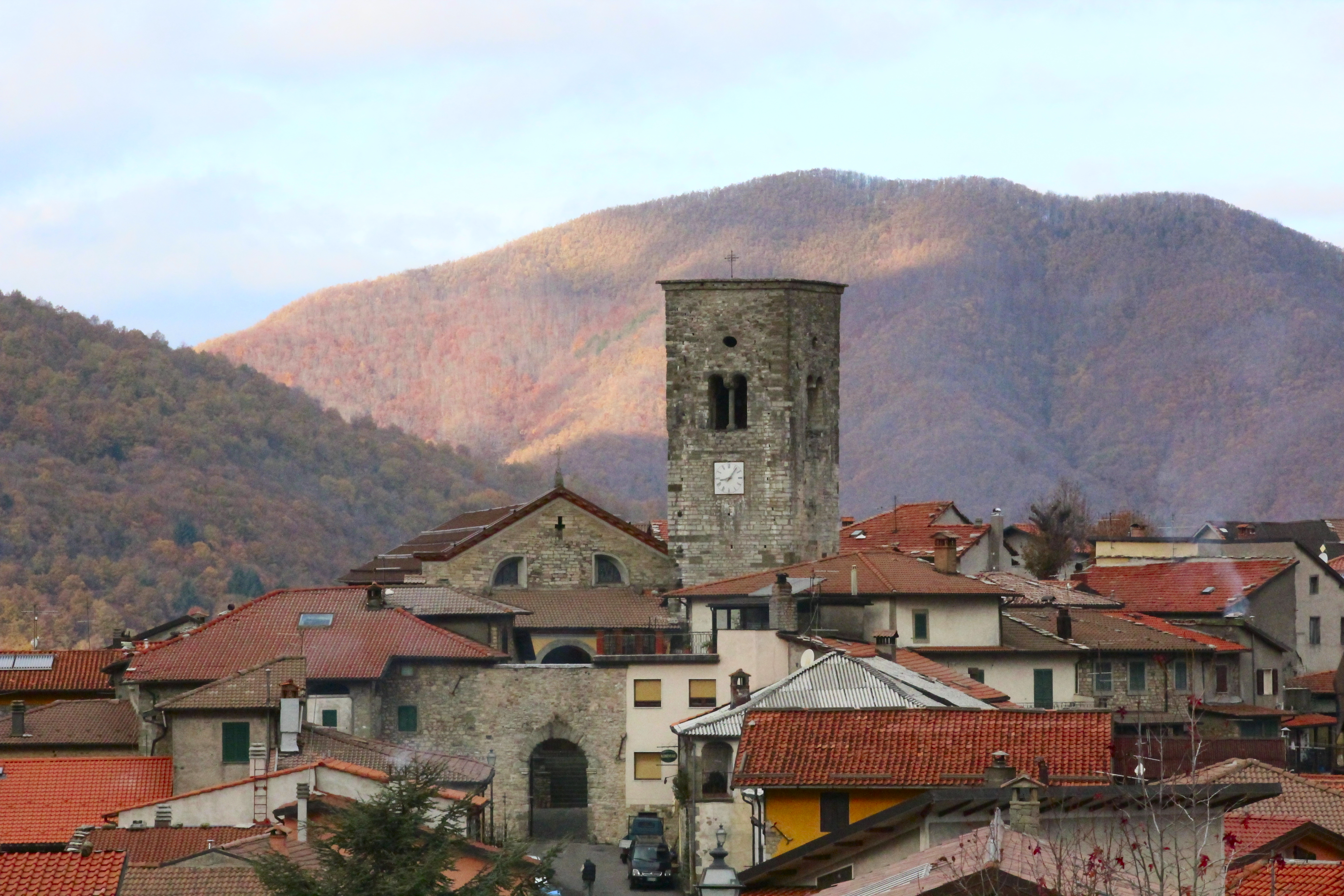 Careggine, Comune in the Province of Lucca, Garfagnana, Tuscany, Italy